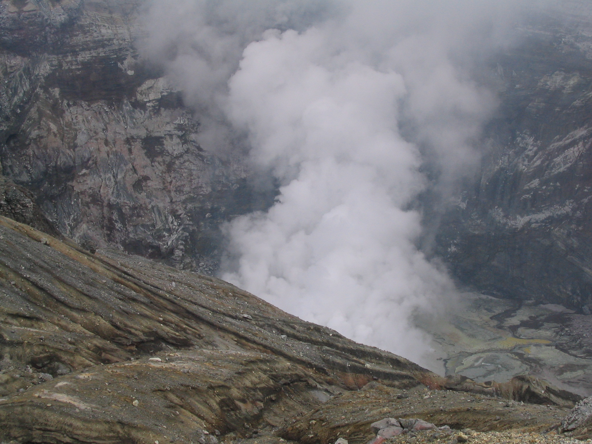 The Nakadake Crater in the Aso Caldera, Japan